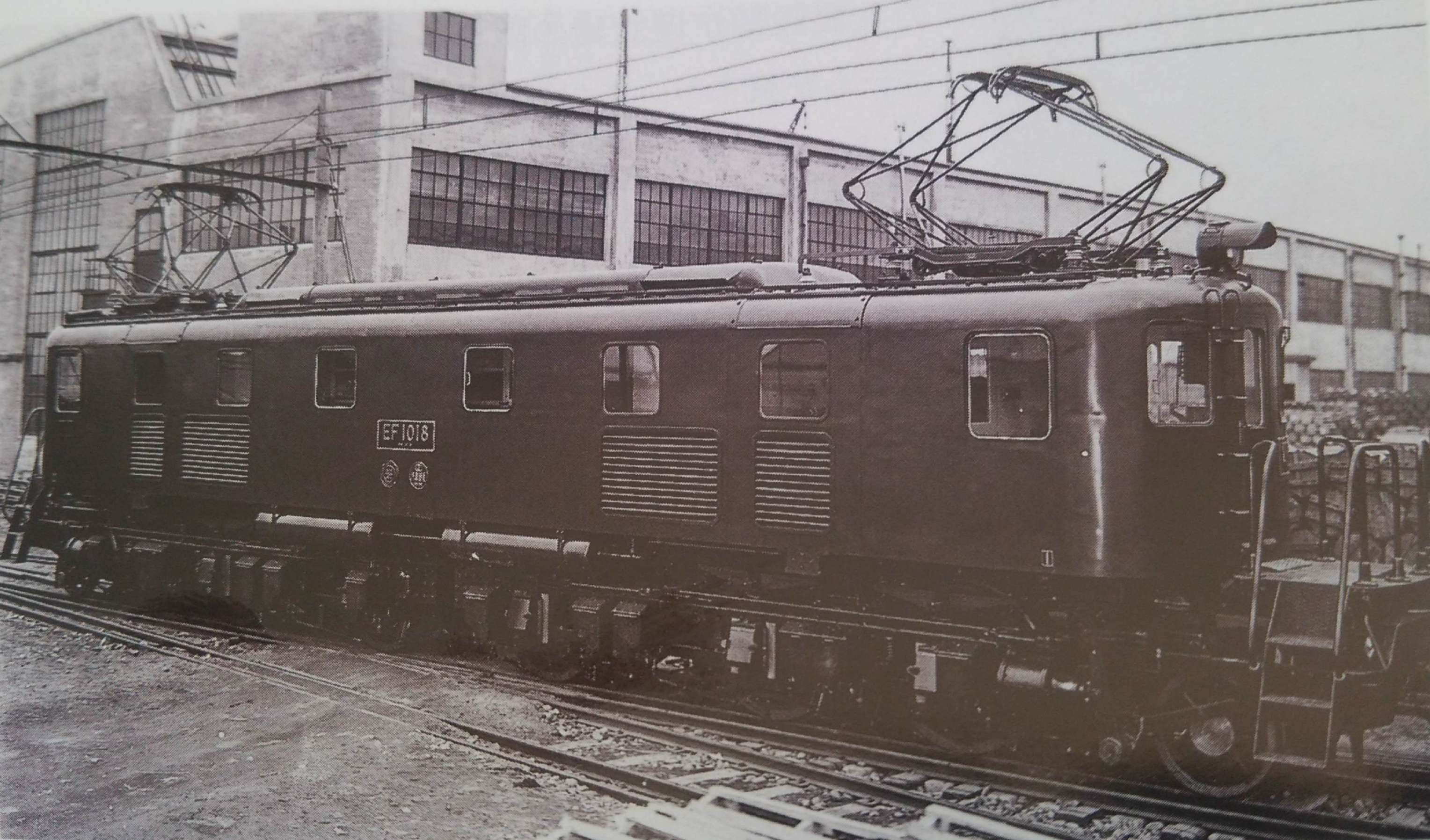 JNR Class EF10 electric locomotive EF10 18 awaiting delivery at the Shibaura (present-day Toshiba) factory in Yokohama